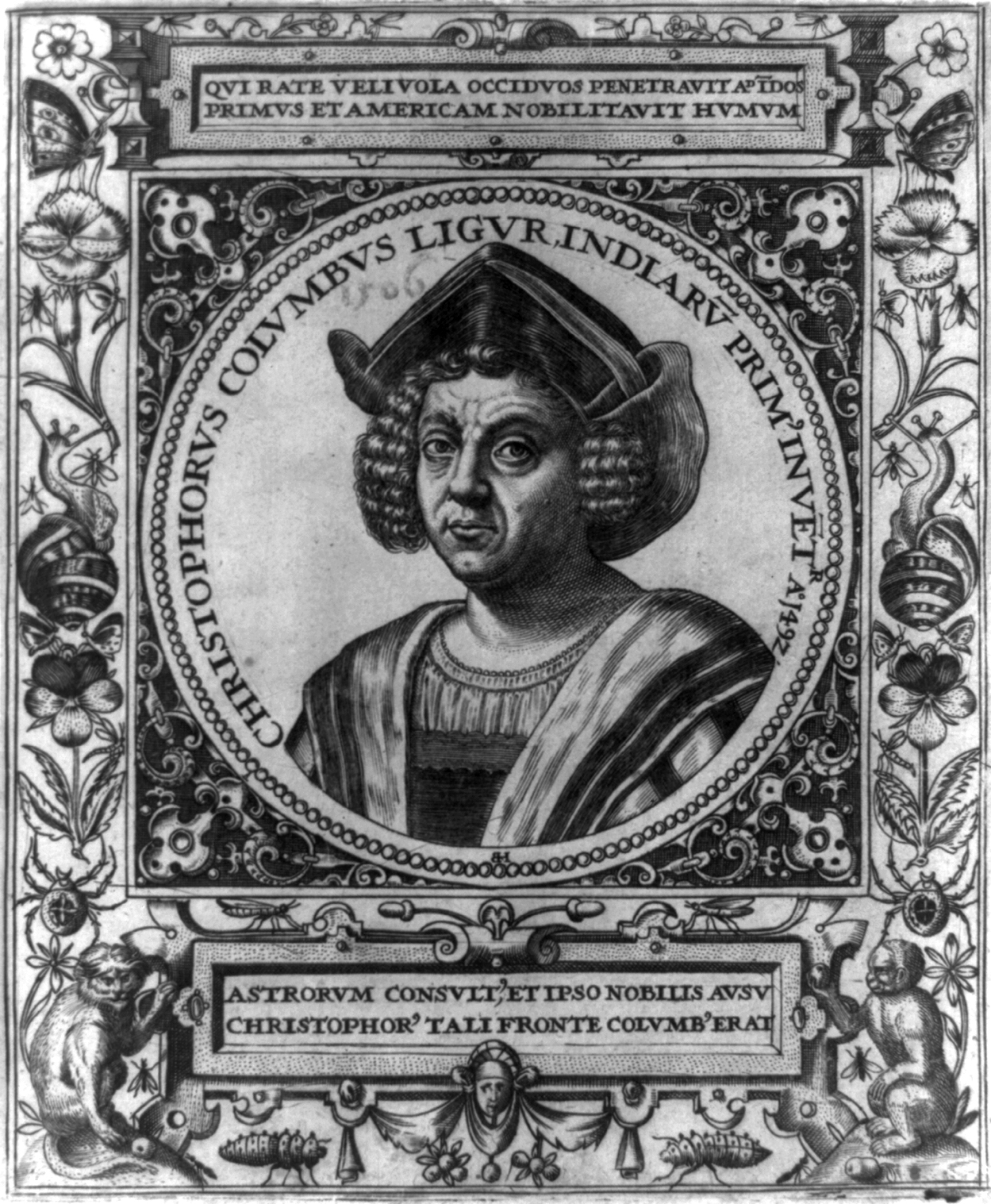 Christopher Columbus, engraving by Johann Theodor De Bry (Théodore de Bry), 16th century.